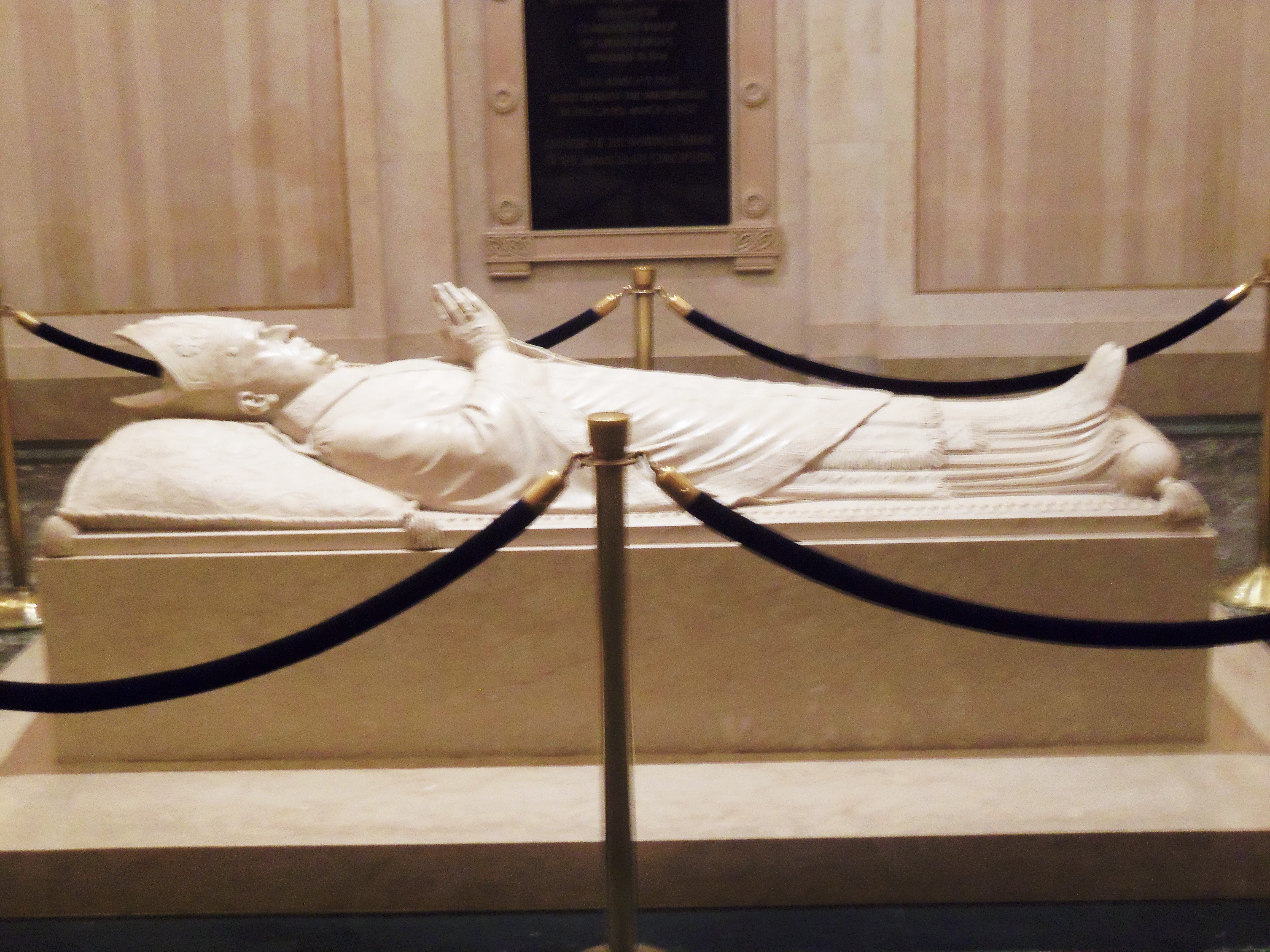 The Founder's Chapel at the Basilica of the National Shrine of the Immaculate Conception in Washington, D.C. contains the sarcophagus of Bishop Thomas J. Shahan, the rector of The Catholic University of America who initiated the planning and supervised the initial building of the basilica.